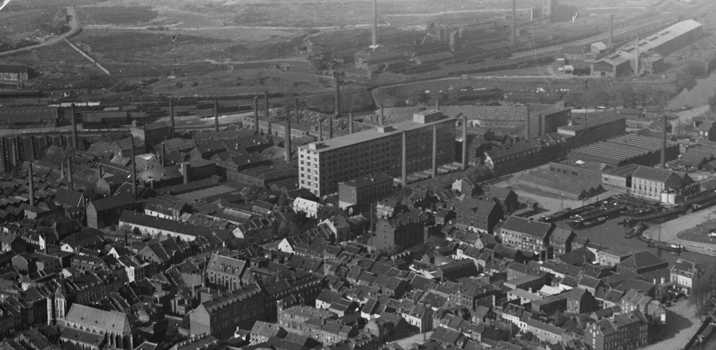 Aerial photograph of Maastricht, The Netherlands